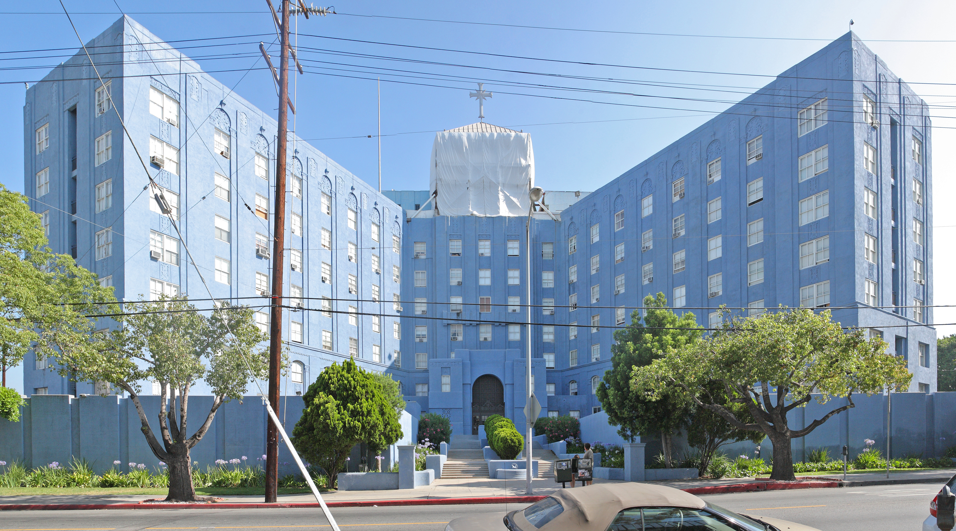 Scientology building on Fountain in East Hollywood, Los Angeles, California. Formerly Cedars of Lebanon hospital. A 3 image stitch.